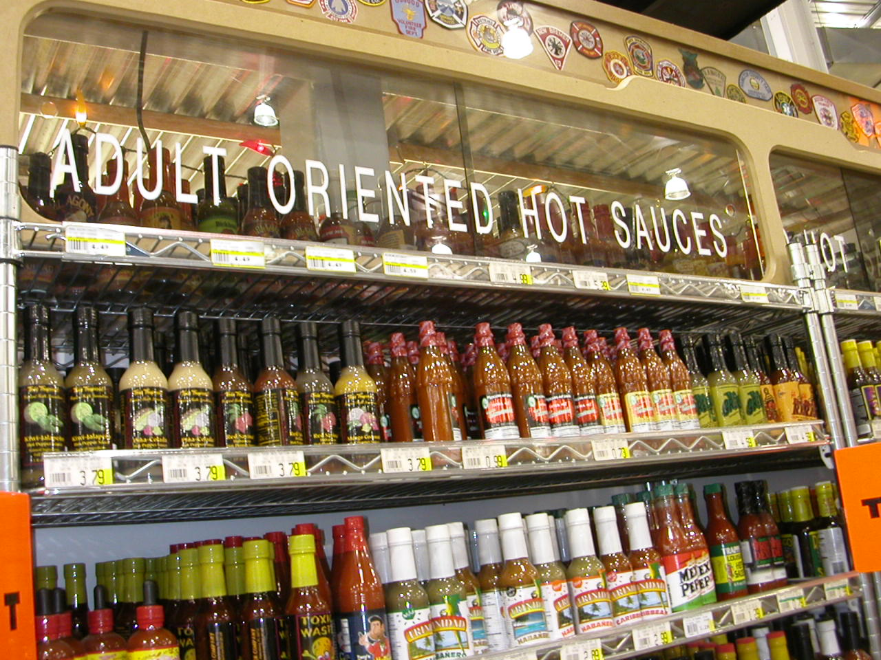 The "Adult Oriented Hot Sauces" section at Jungle Jim's International Market in Fairfield.